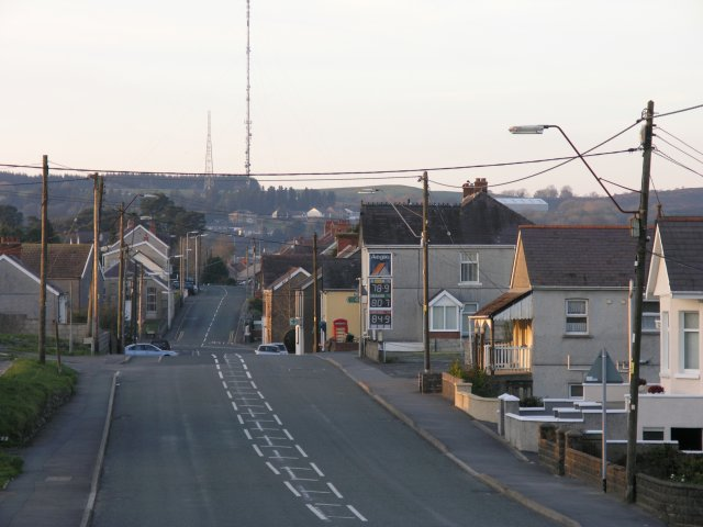 Pen-y-Groes A view of Pen-y-Groes, looking towards the Carmel TV, radio and communications masts. The second smaller mast had only been erected a few days before this picture was taken.